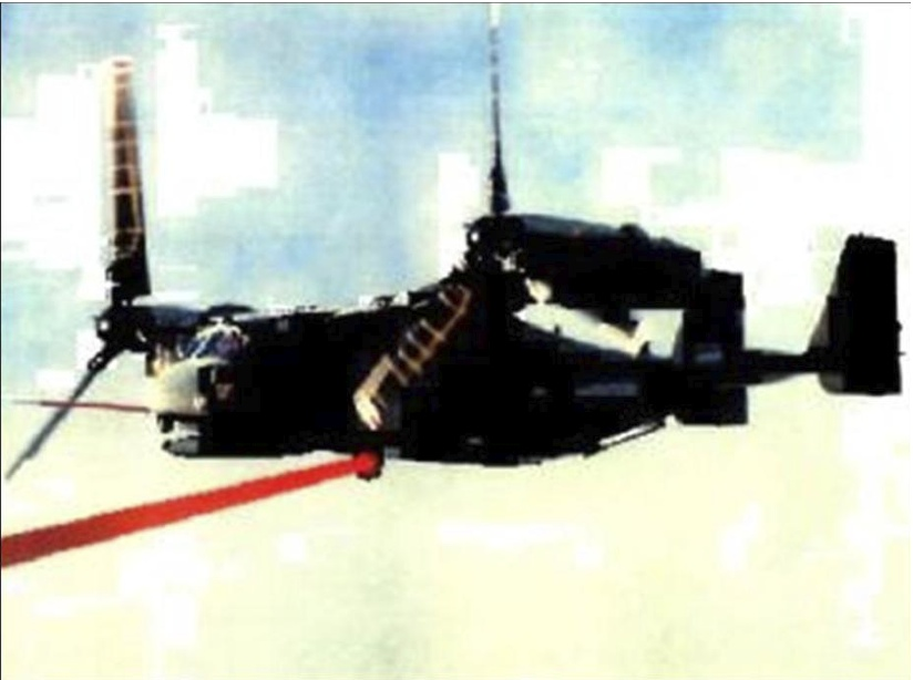 USMC fry in the sky laserbeam -- supposed to burn a bad guys clothes off their body.